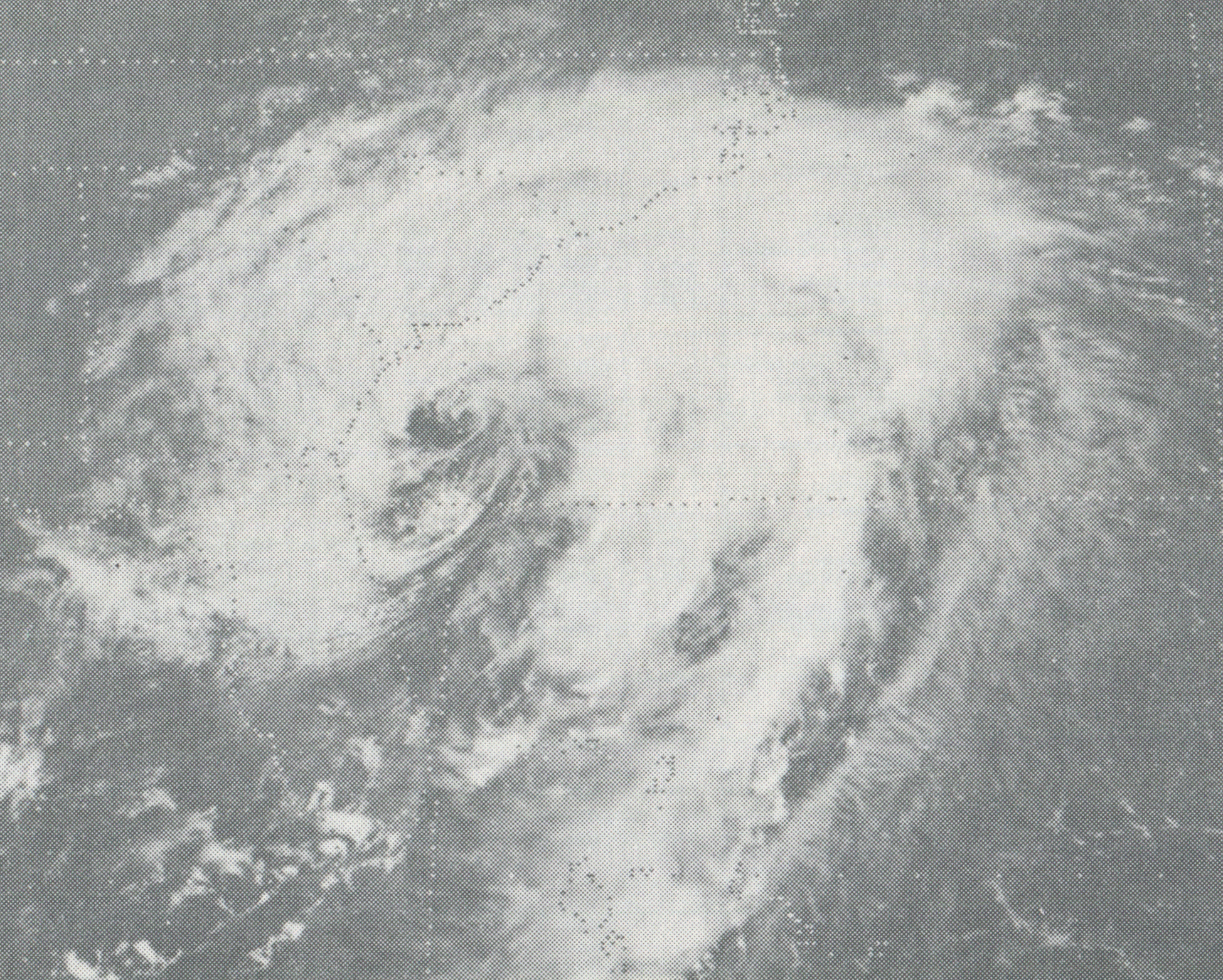 This weather satellite image of Tropical Storm Dottie was taken prior to its South Carolina landfall on August 21, 1976